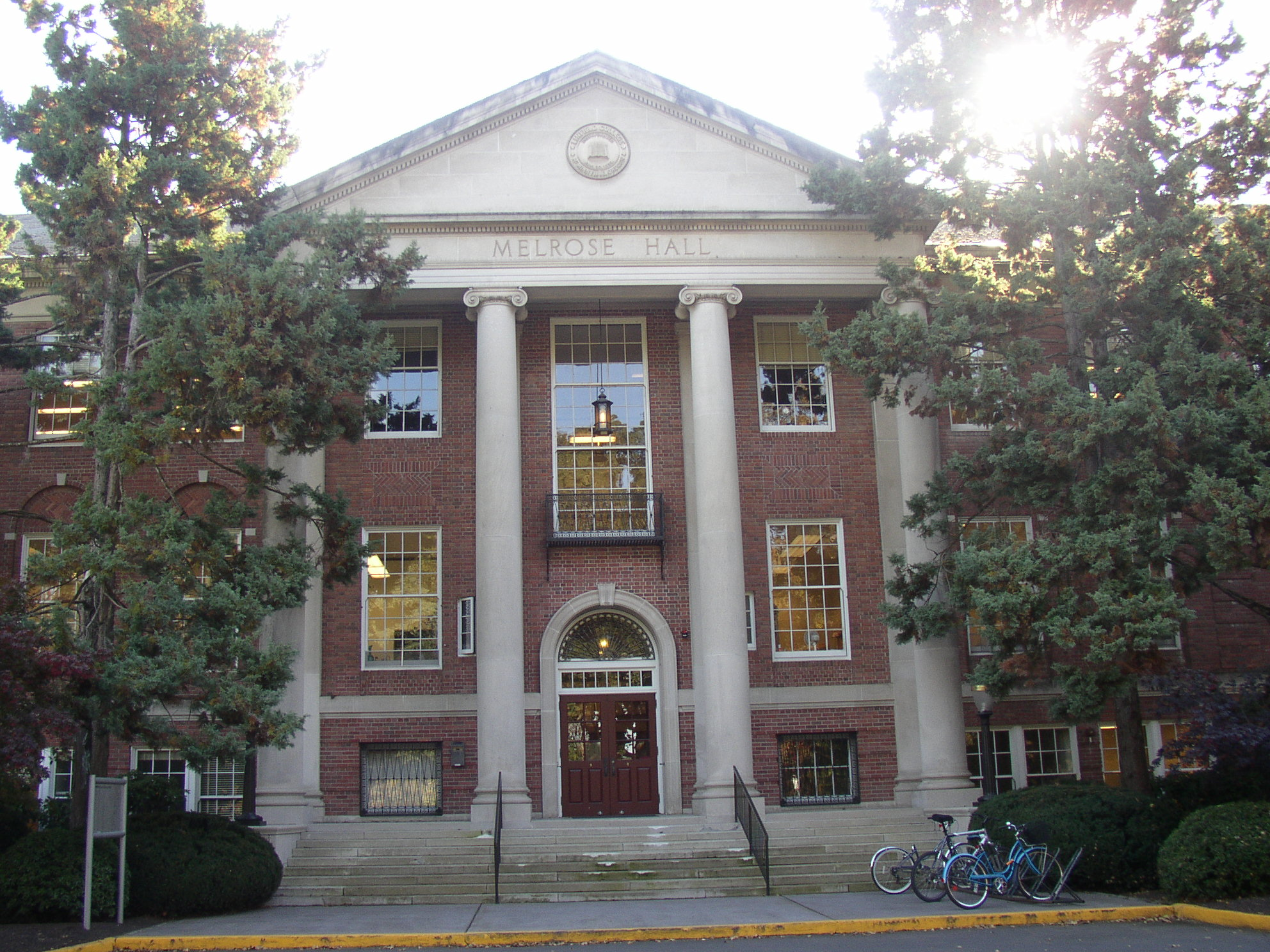 Melrose Hall at Linfield College in McMinnville, Oregon